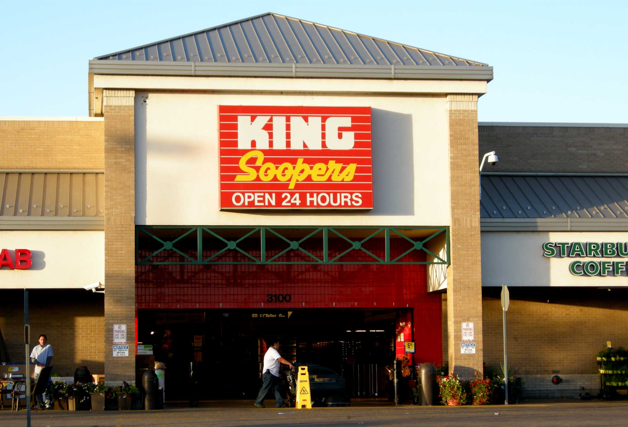 King Soopers grocery store, 3100 S Sheridan Blvd, Denver, Colorado, USA